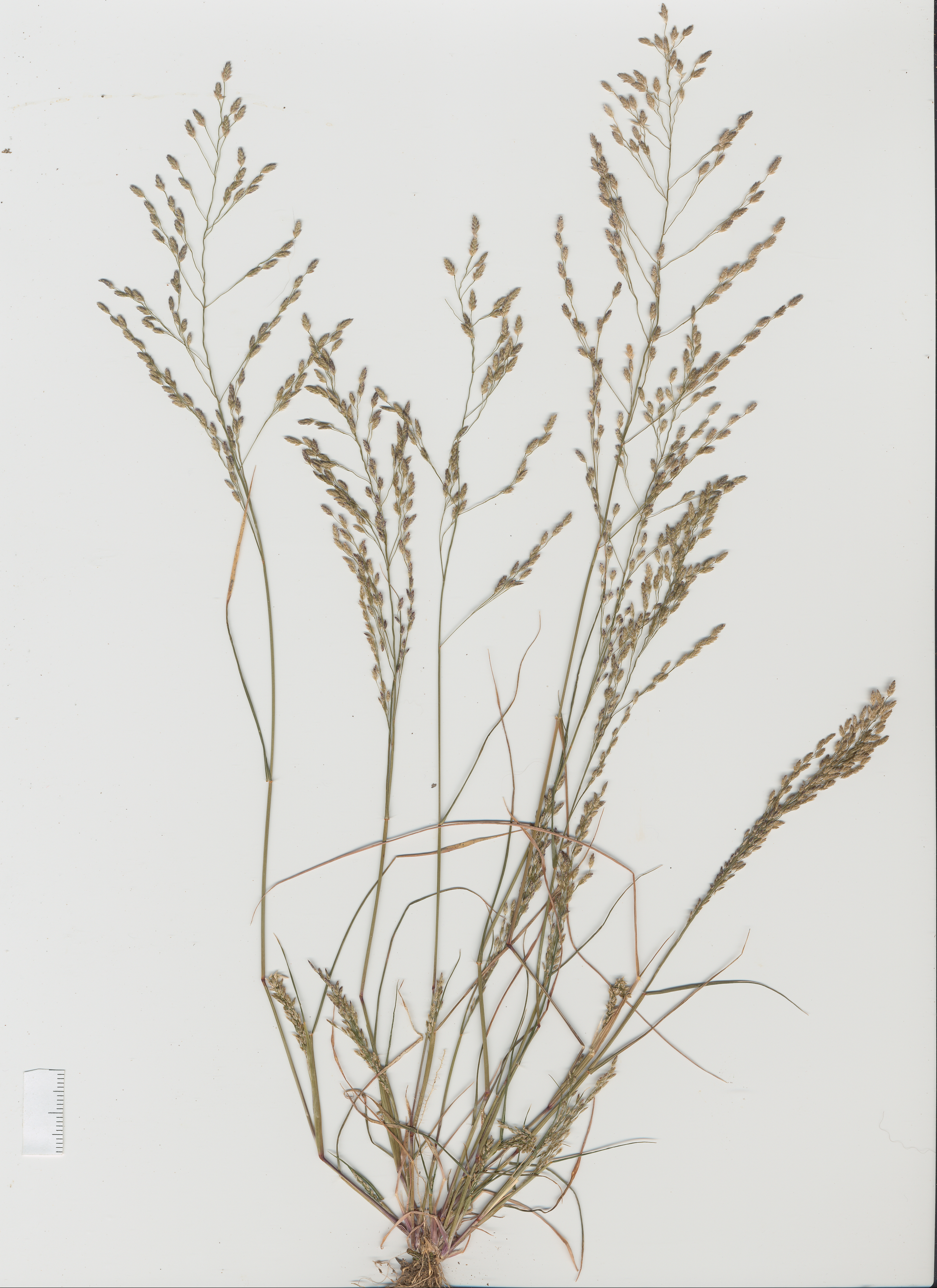 Introduced, warm-season, annual, tufted grass to 1.2 m tall; nodes sometimes have a brown ring of glands below them. Leaves are hairless, with rigid 3 mm long hairs either side of the ligule. Flowerheads are contracted panicles at first, becoming open at maturity (9-50 cm long). A native of Europe, it is a weed of disturbed areas of agriculture and habitation (e.g. crops, sown pastures, gardens, roadsides and waste areas).